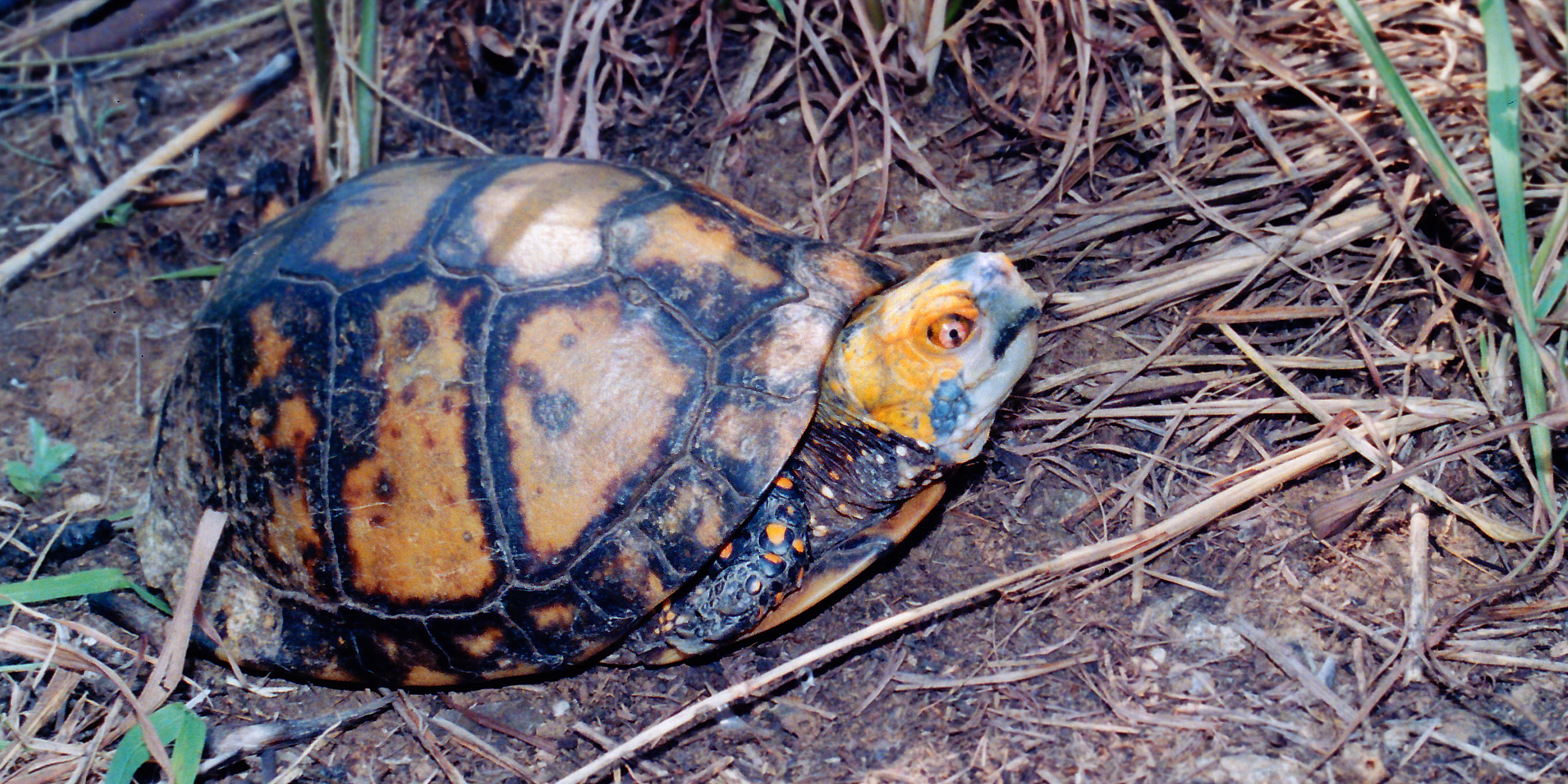 Mexican Box Turtle (Terrapene mexicana), a male from the southern Tamaulipas, Mexico. Photographed on 30 May 2005 by William L. Farr. This image was originally photographed with film and later scanned from a print.